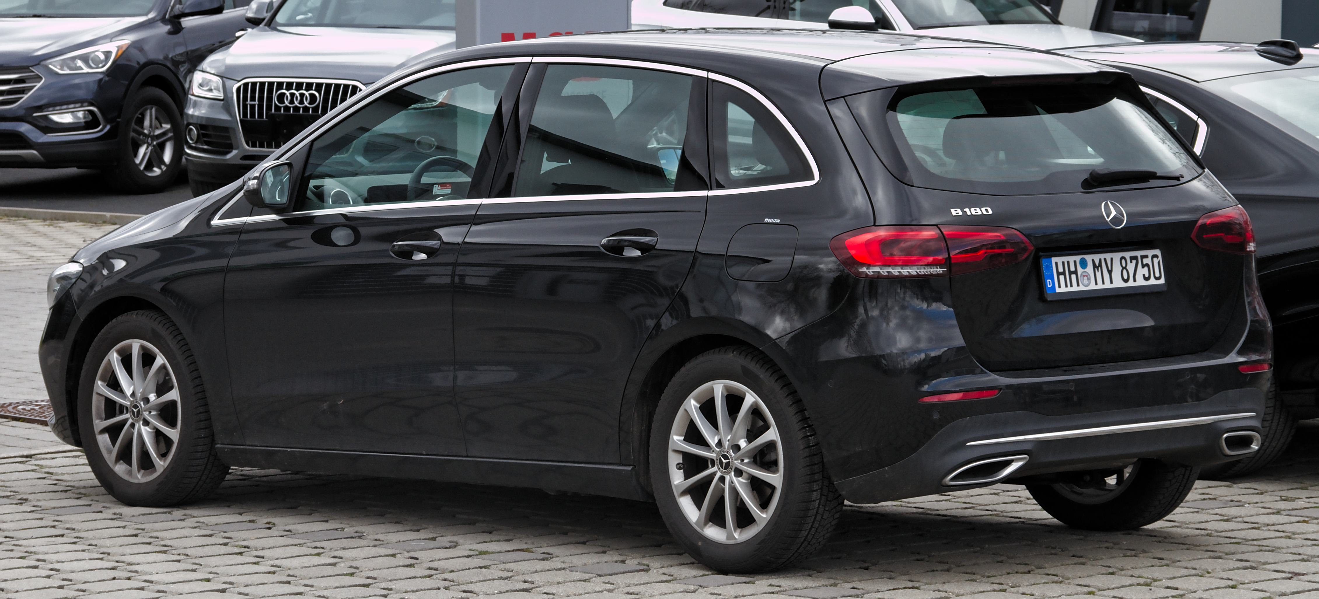 Mercedes-Benz_W247 in Stuttgart-Vaihingen